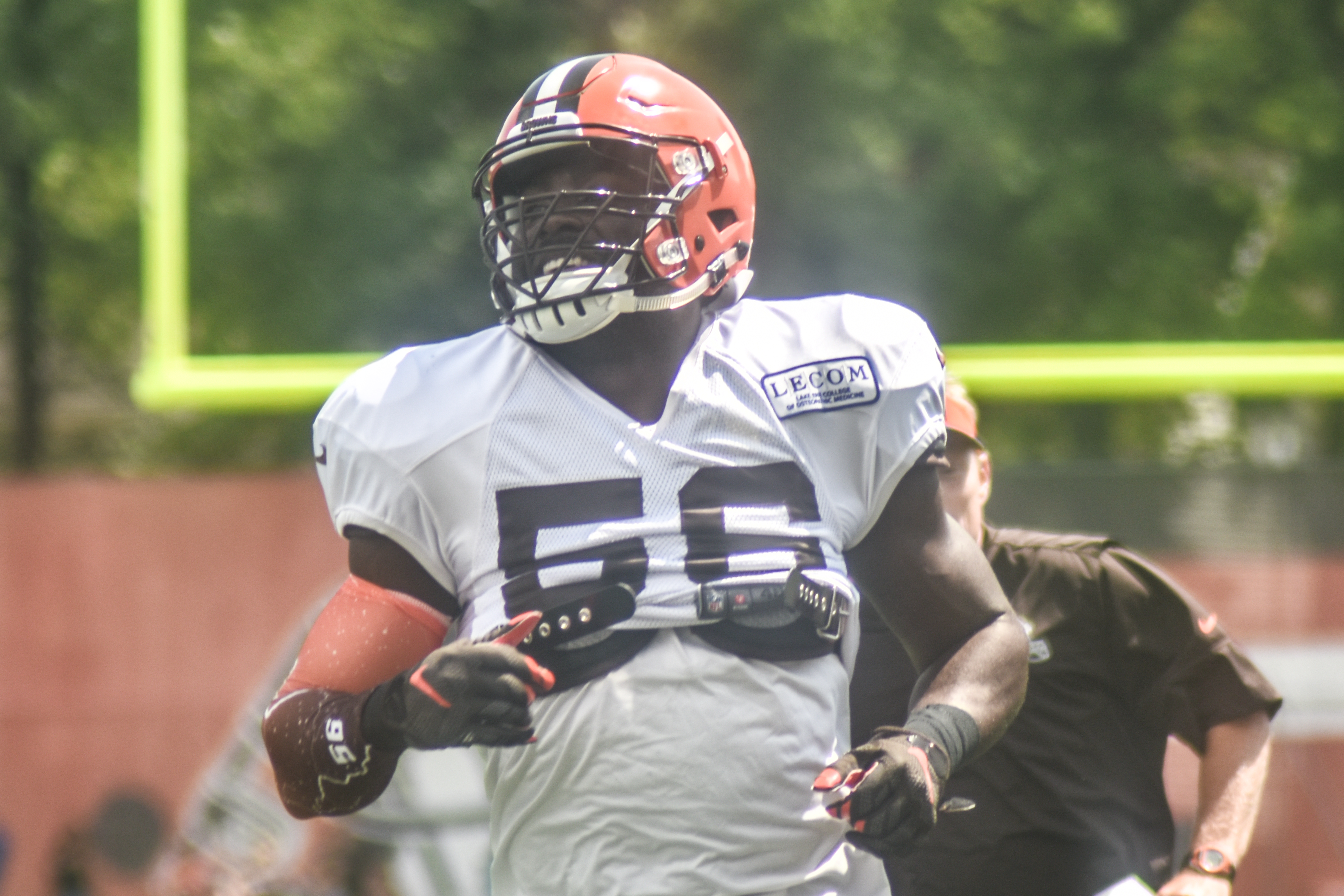 2016 Cleveland Browns Training Camp (#56 - linebacker Demario Davis)